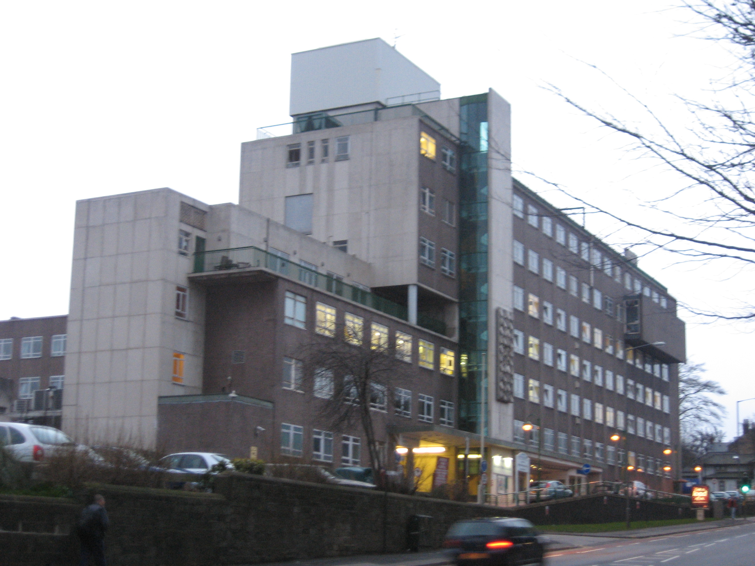 source: self made author: Lewis Skinner